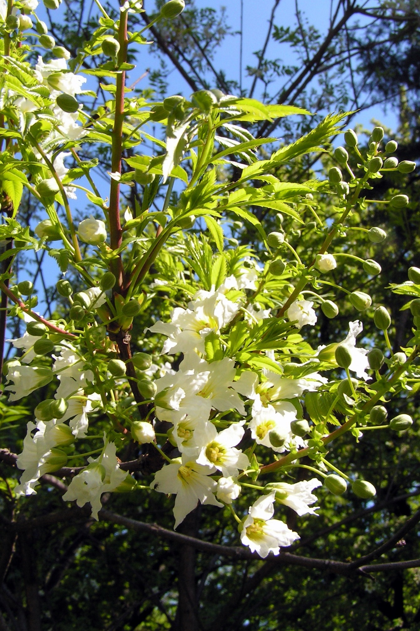 Xanthoceras sorbifolium in the Botanical Garden of the University of Vienna